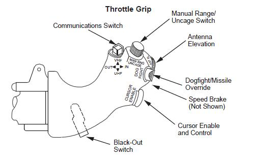 This diagram shows the layout and functionality of the F-16 throttle grip.